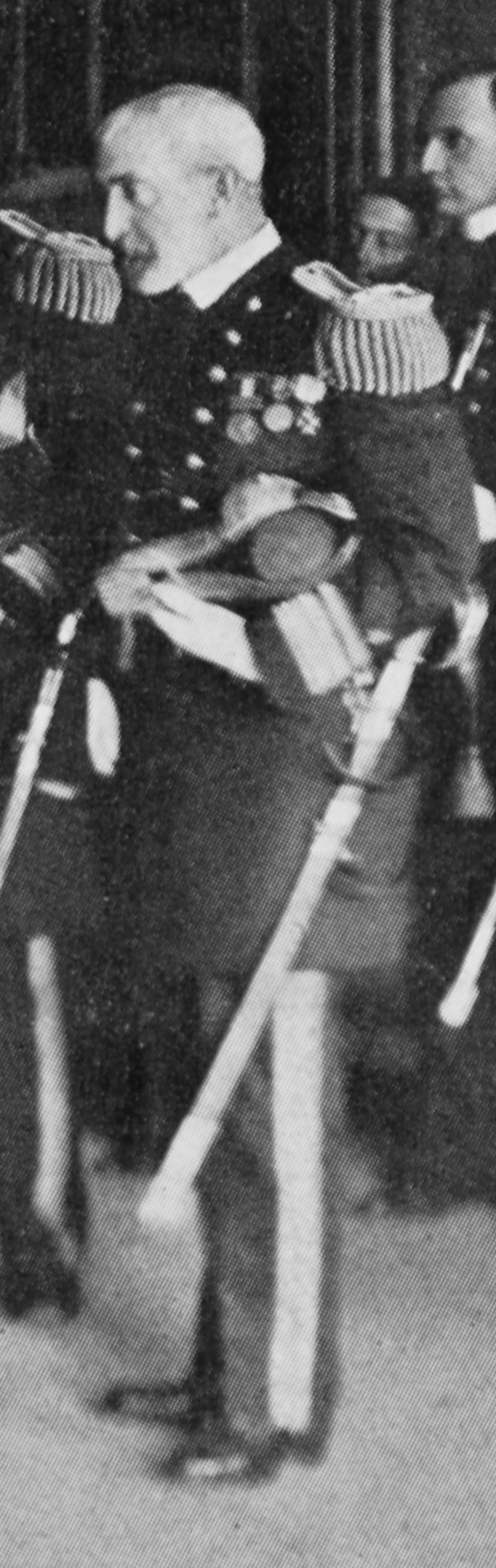 United States Navy Rear Admiral John Hubbard (1848-1932) in Tokyo, Japan, in January 1910.